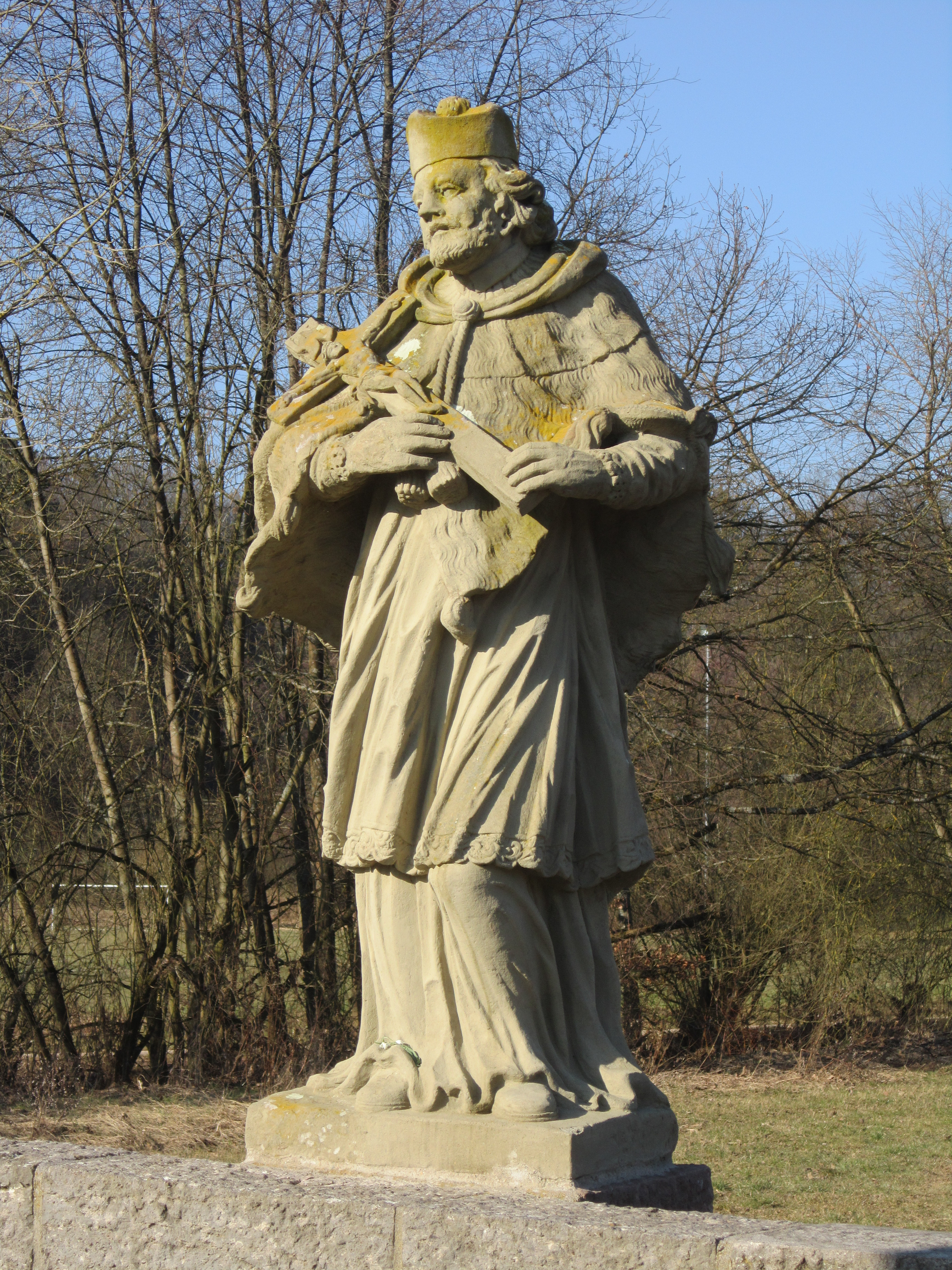 Statue of St. Nepomuk located in Hausen, a quarter of the German spa town of Bad Kissingen (Lower Franconia, Bavaria).